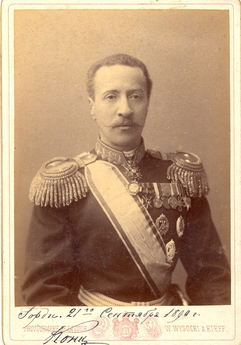 Duke Constantine Petrovich of Oldenburg photographed in 1890.